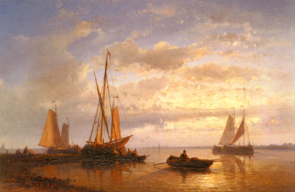 Dutch Fishing Vessels In A Calm At Sunset